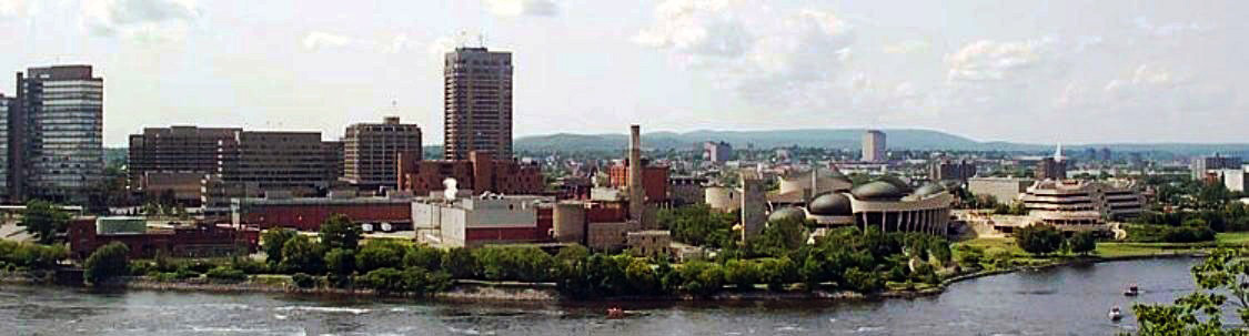 Panorama of Gatineau, Quebec, showing Museum of Civilization.